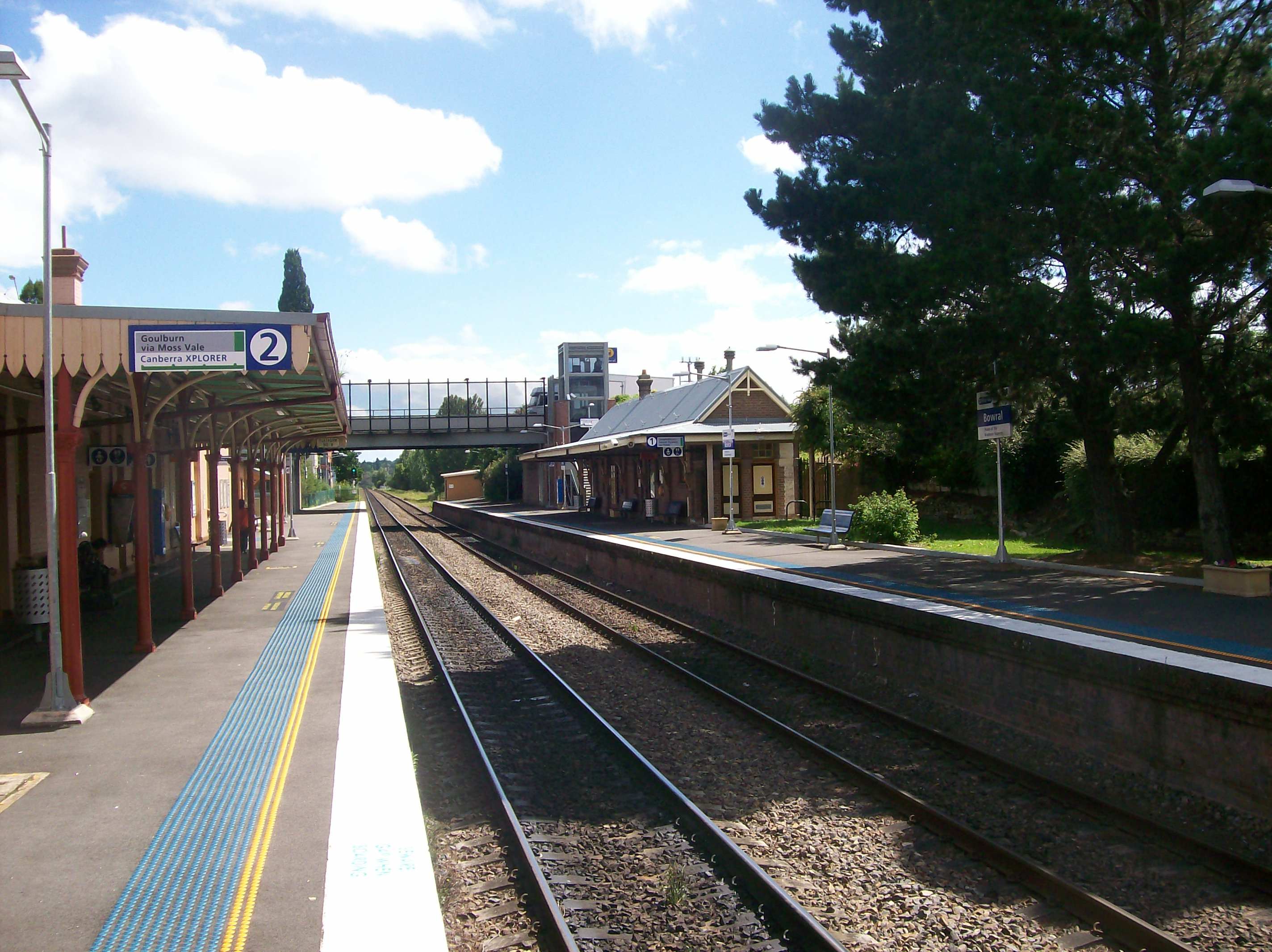 Bowral railway station